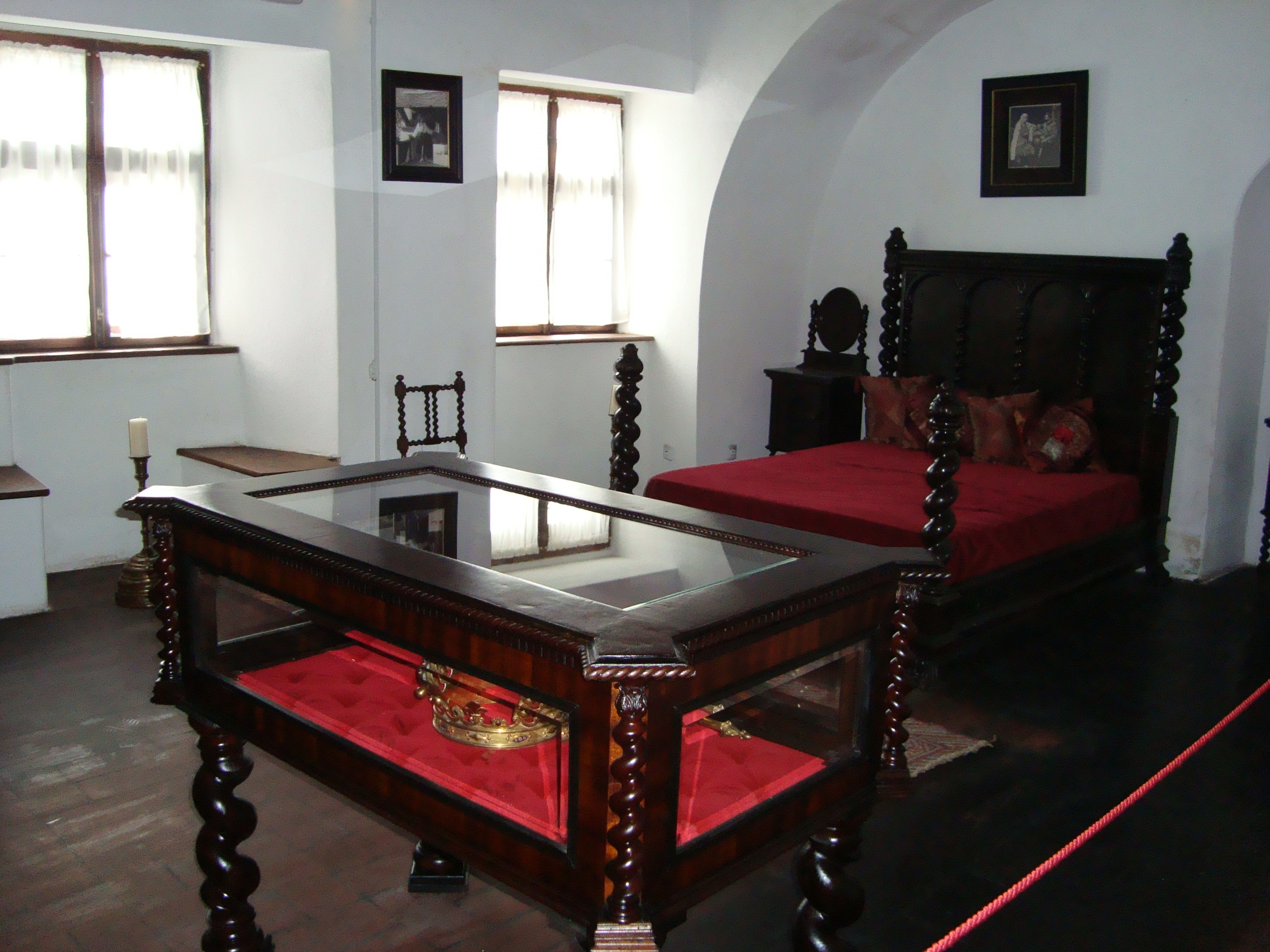 Bran castle, Romania